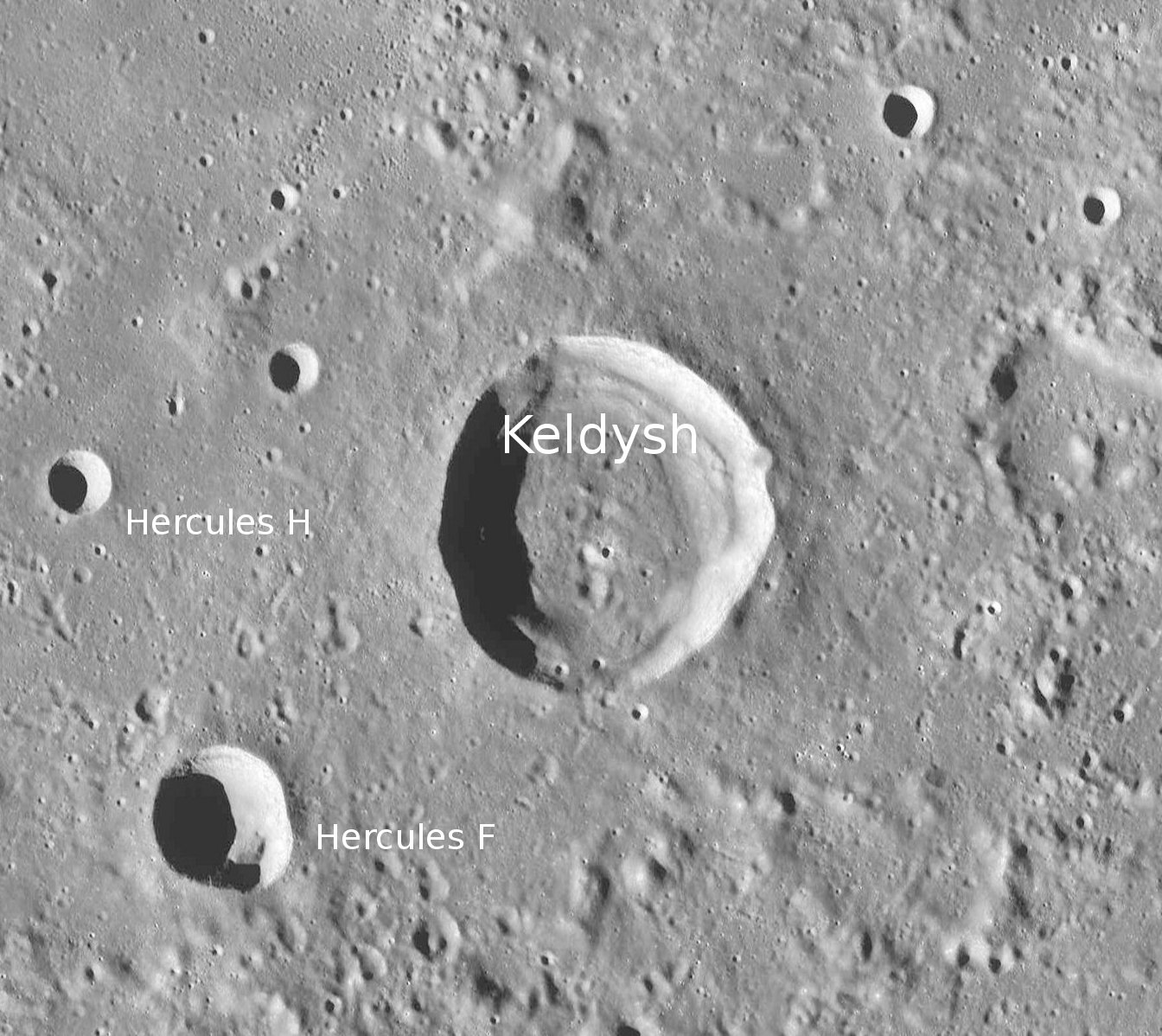 Crater Keldysh (detail of LRO - WAC global moon mosaic; Mercator projection)